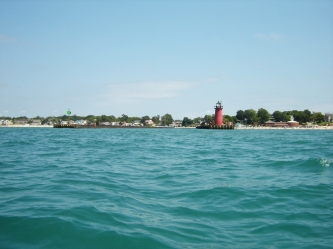 South Haven (including the lighthouse) as seen from Lake Michigan.